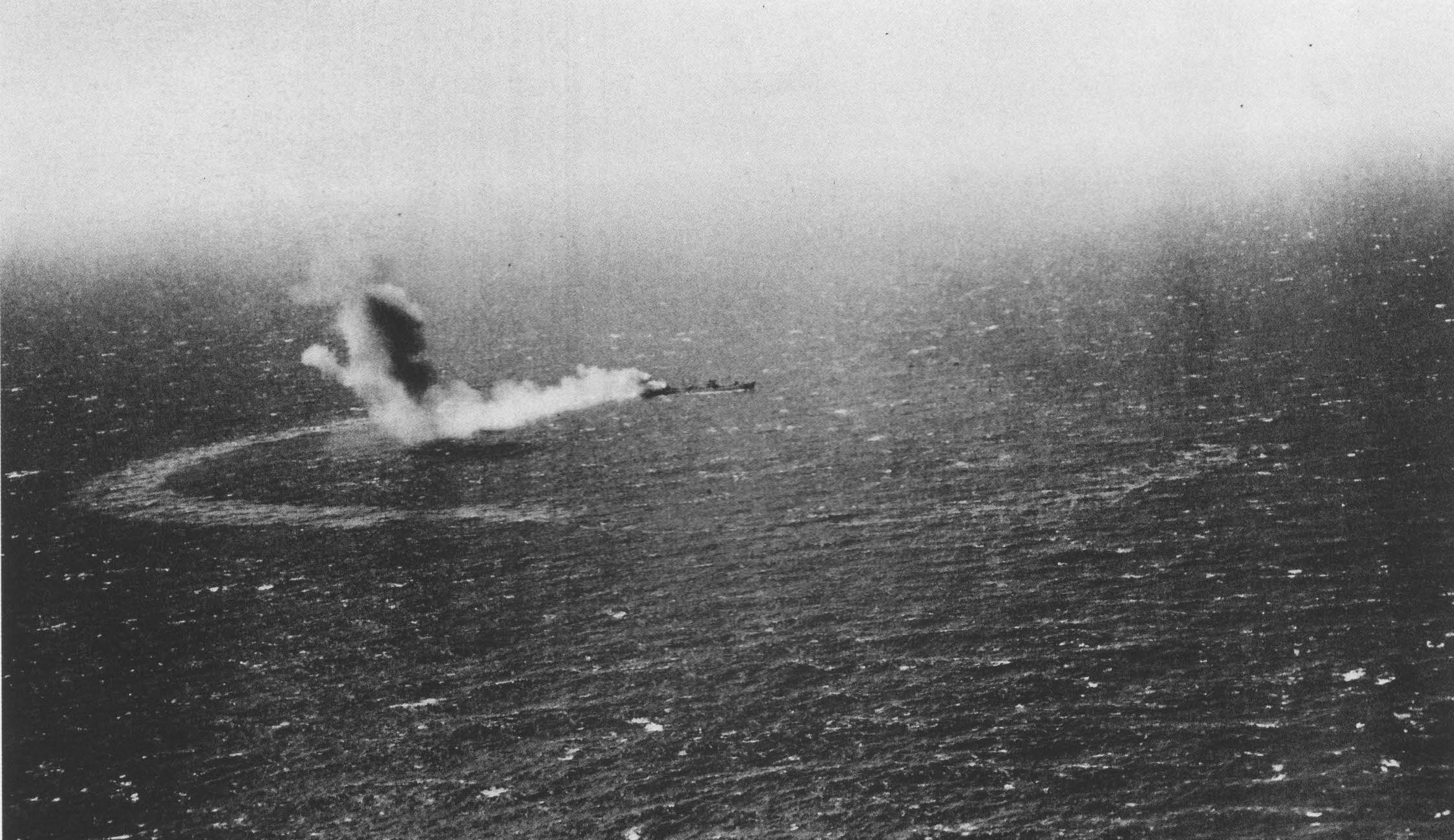 The United States Navy fleet oiler USS Neosho (AO-23) is left burning and slowly sinking after an attack by Imperial Japanese Navy dive bombers on 7 May 1942 during the Battle of the Coral Sea.